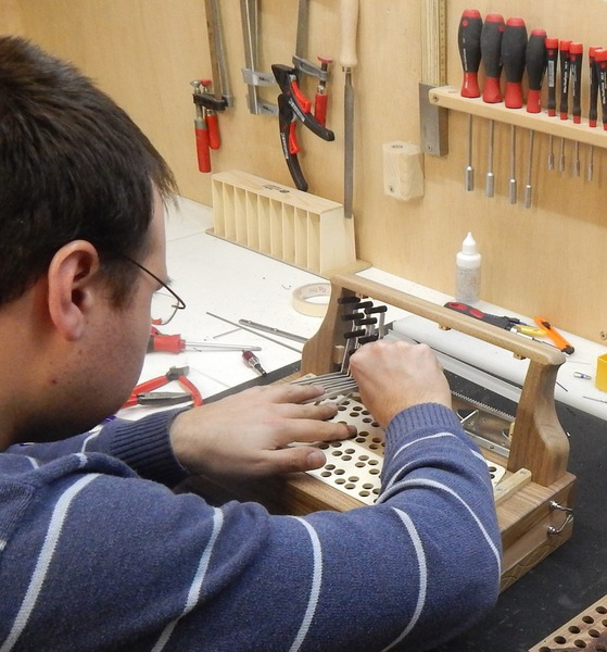 assembling keyboard